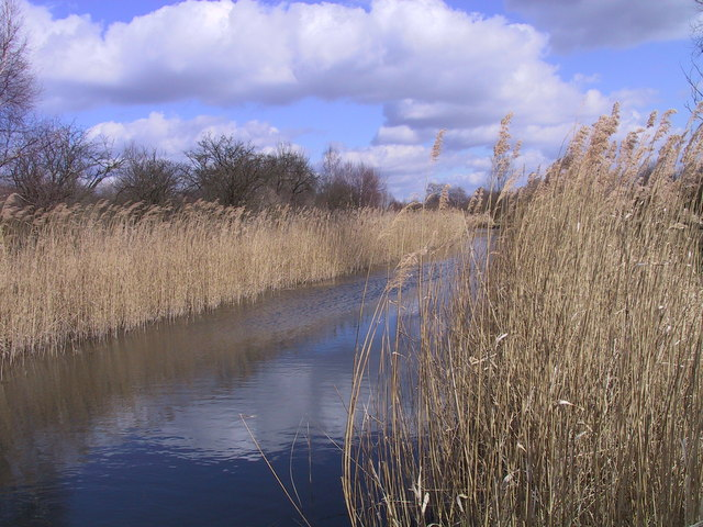 Wicken Lode Looking north along Wicken Lode